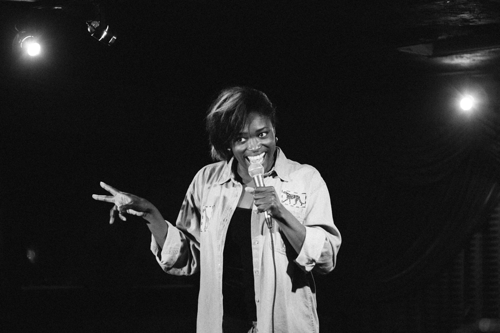 British comedienne Andi Osho at Not Safe For Work Presented by Comedy Central Produced by CleftClips Photography by Mandee Johnson / The Del Monte Speakeasy at Townhouse Venice - Los Angeles, CA May 7, 2013